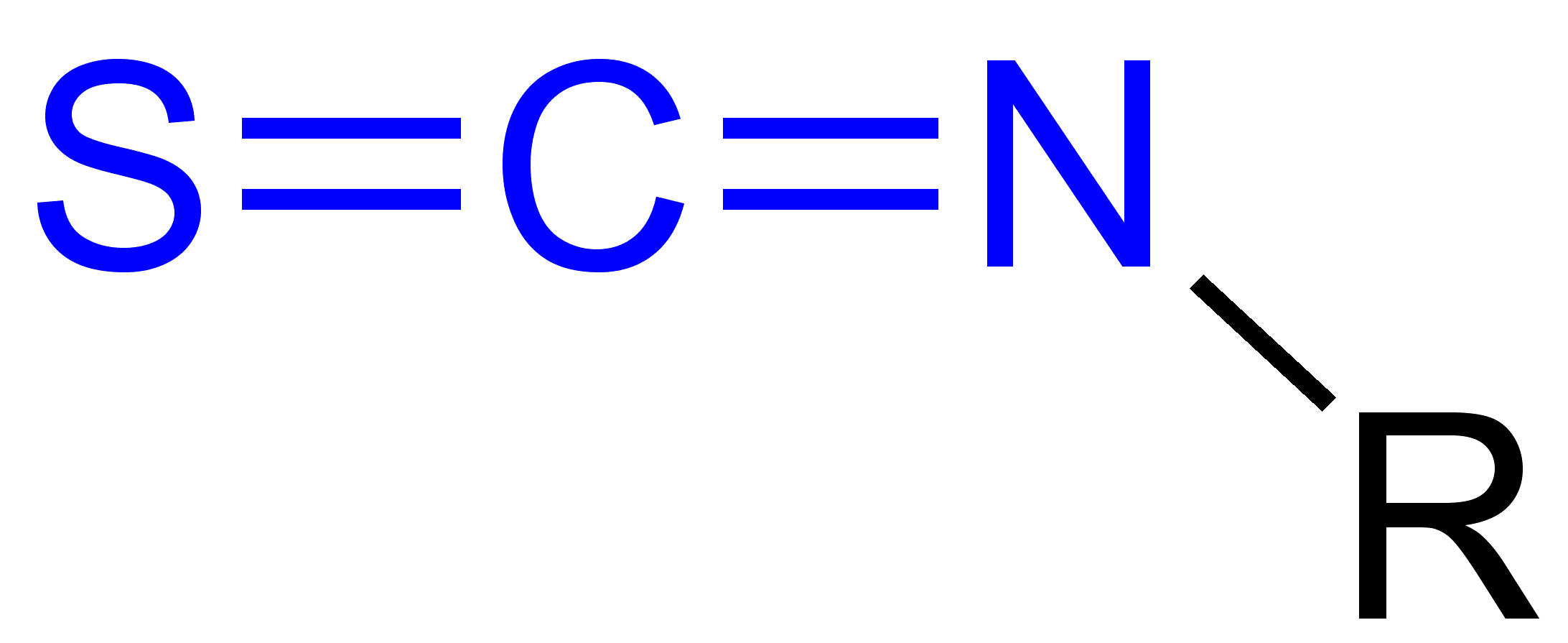 Isothiocyanates_General_Formulae